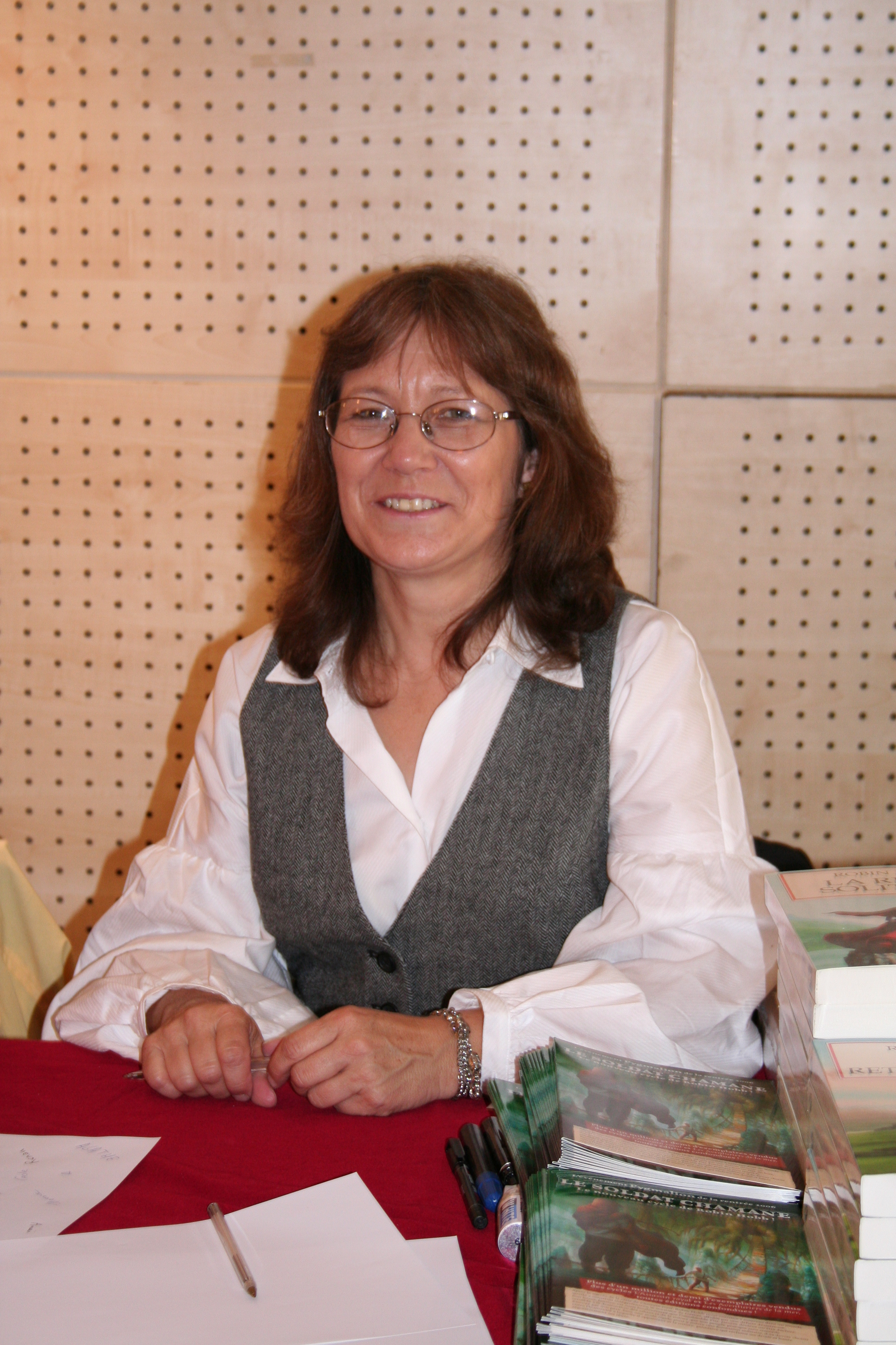 Autograph session with Robin Hobb at Fnac Saint-Lazare (Paris, France).